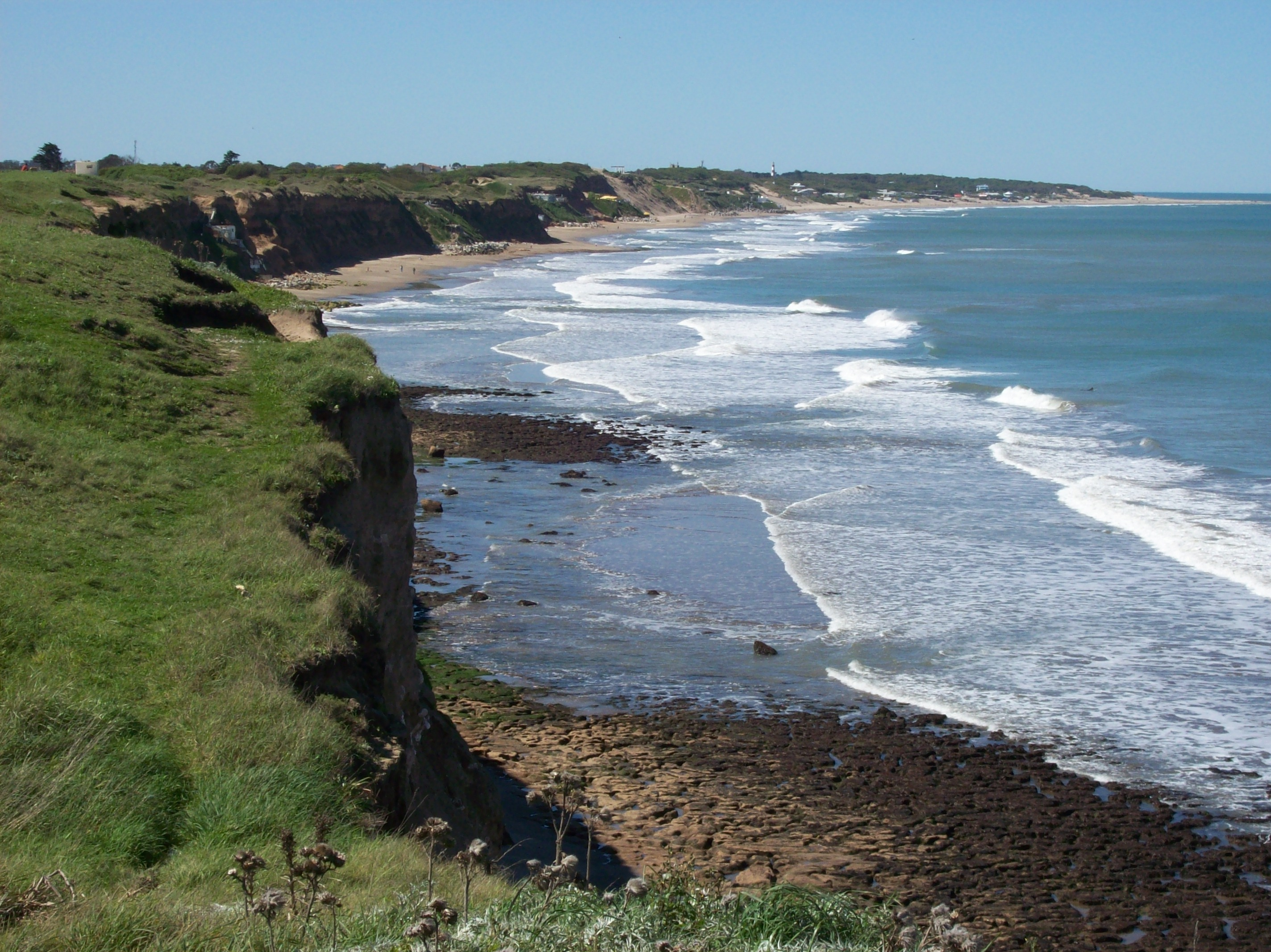 Barranca de los Lobos towards north at south of Mar del Plata, Buenos Aires, Argentina.